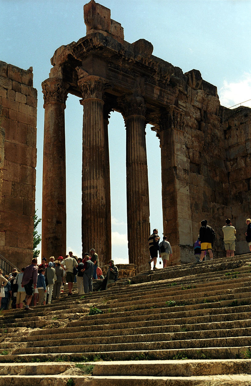 Baalbek, Entrance into the Bacchus Temple